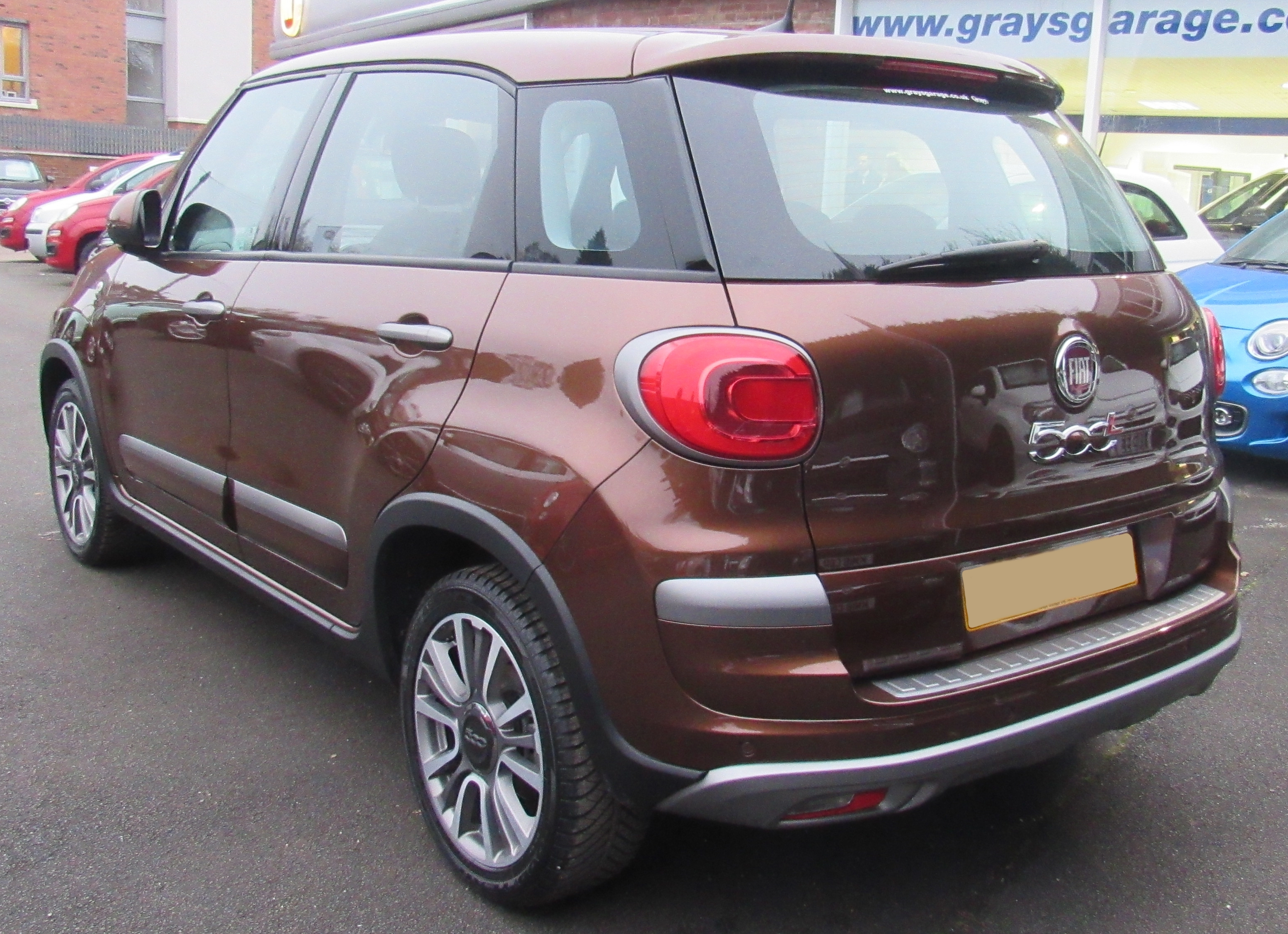 2018 Fiat 500L Cross 1.4 Rear Taken in Warwick